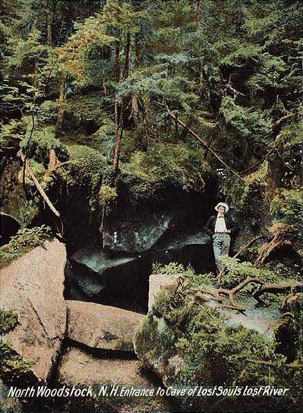 Entrance to Cave of Lost Souls, Lost River, North Woodstock, New Hampshire